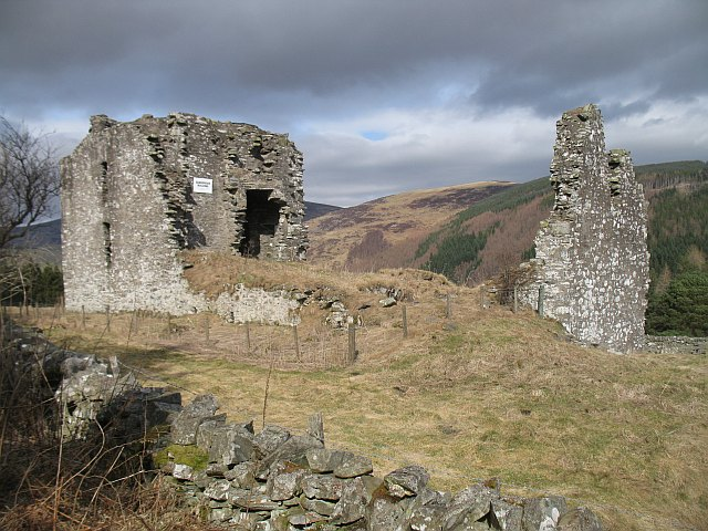 Elibank Tower 16th century tower house.